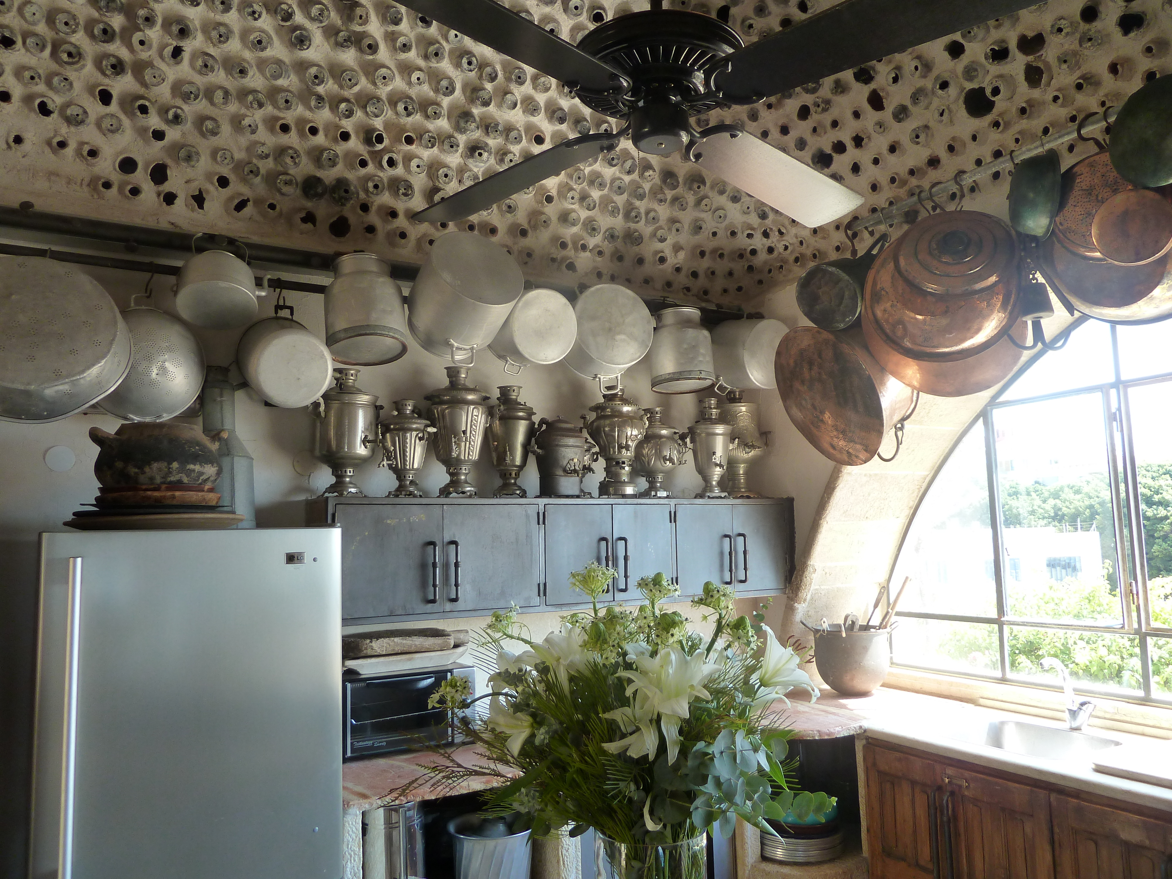 Ilana Goor Museum, Jaffa, Israel